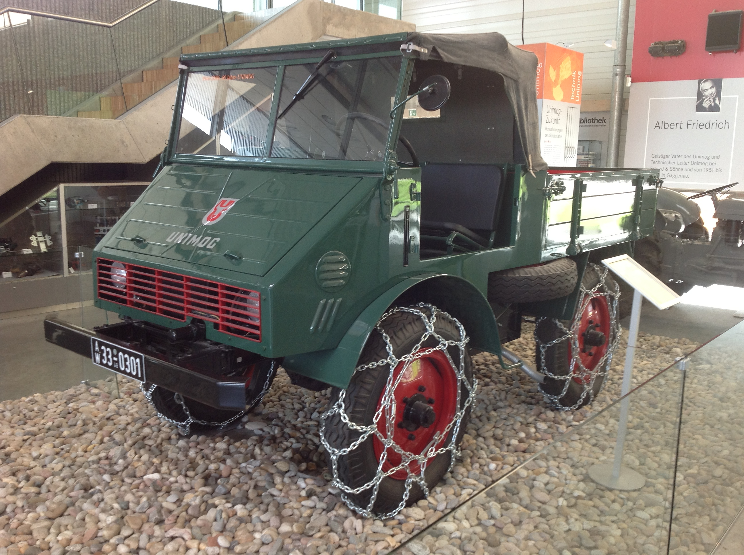 Unimog prototype U6. Built in 1948